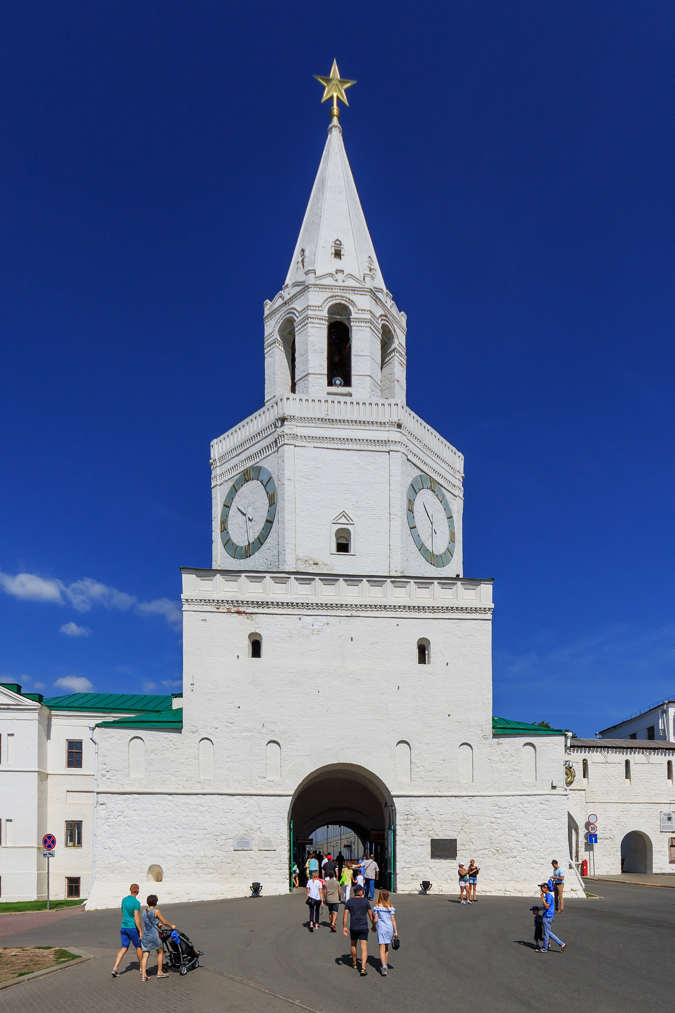 Spasskaya Tower of the Kremlin in Kazan, Russia